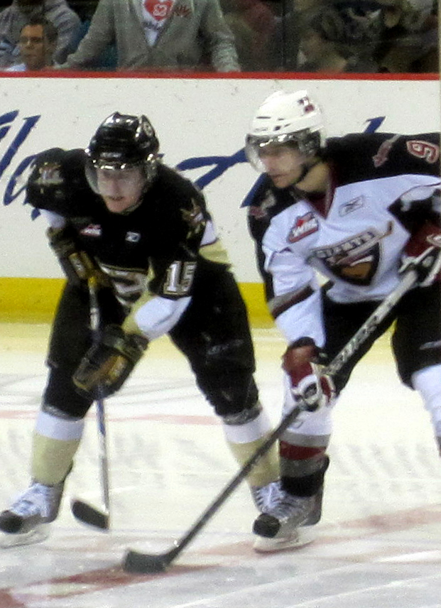 Chilliwack Bruins forward Steven Hodges and Vancouver Giants forward Dalton Sward lineup for a faceoff during a game on March 9, 2011.